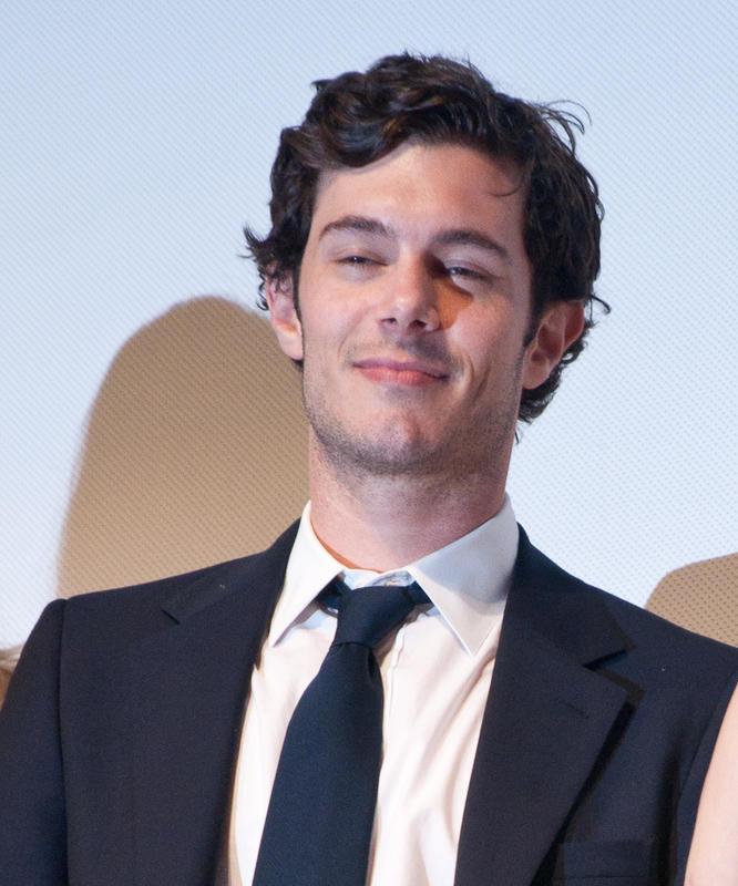 The Actor Adam Brody in 2011.